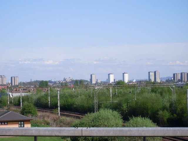 View across the west of Glasgow from Clydebank From Argyll Road. The eagle eyed will spot the Gothic spire of Glasgow University in the distance - one of two University buildings in the image, the other being at Strathclyde University's Jordanhill campus.